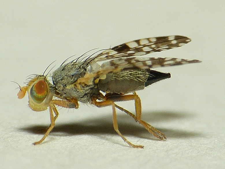 Campiglossa absinthii, location: The Netherlands - Rhenen - Blauwe Kamer - Gelderland